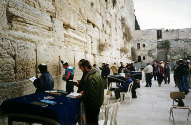 Jews in Prayer at the Western Wall